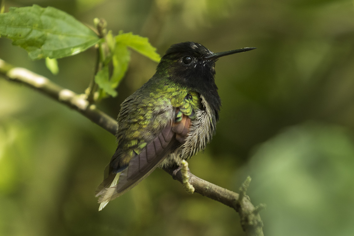 Black-bellied Hummingbird - La Paz - Costa Rica_MG_2167